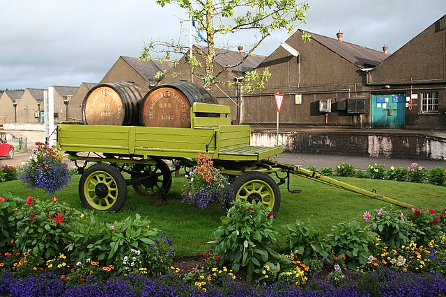 1992 casks on the cart at Macallan. 1992 a good year but a much better year when the casks were opened???